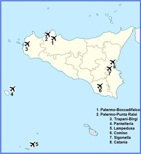 Location map of Sicily, Italy Equirectangular projection, N/S stretching 125 %. Geographic limits of the map: * N: 38.9° N * S: 35.4° N * W: 11.8° E * E: 15.8° E